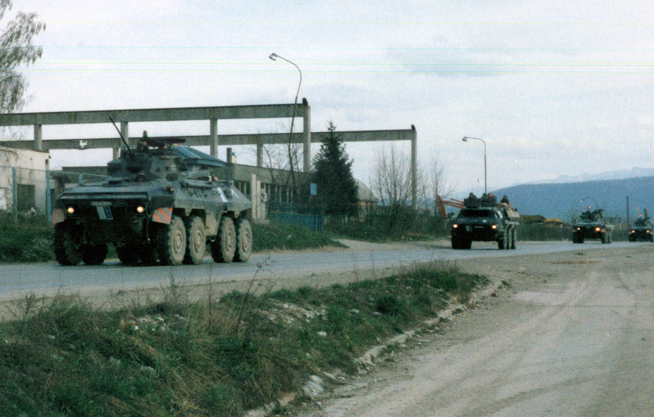 Ordinary german SFOR-Patrol with reconnaissance vehicle Luchs and personnel carrier Fuchs